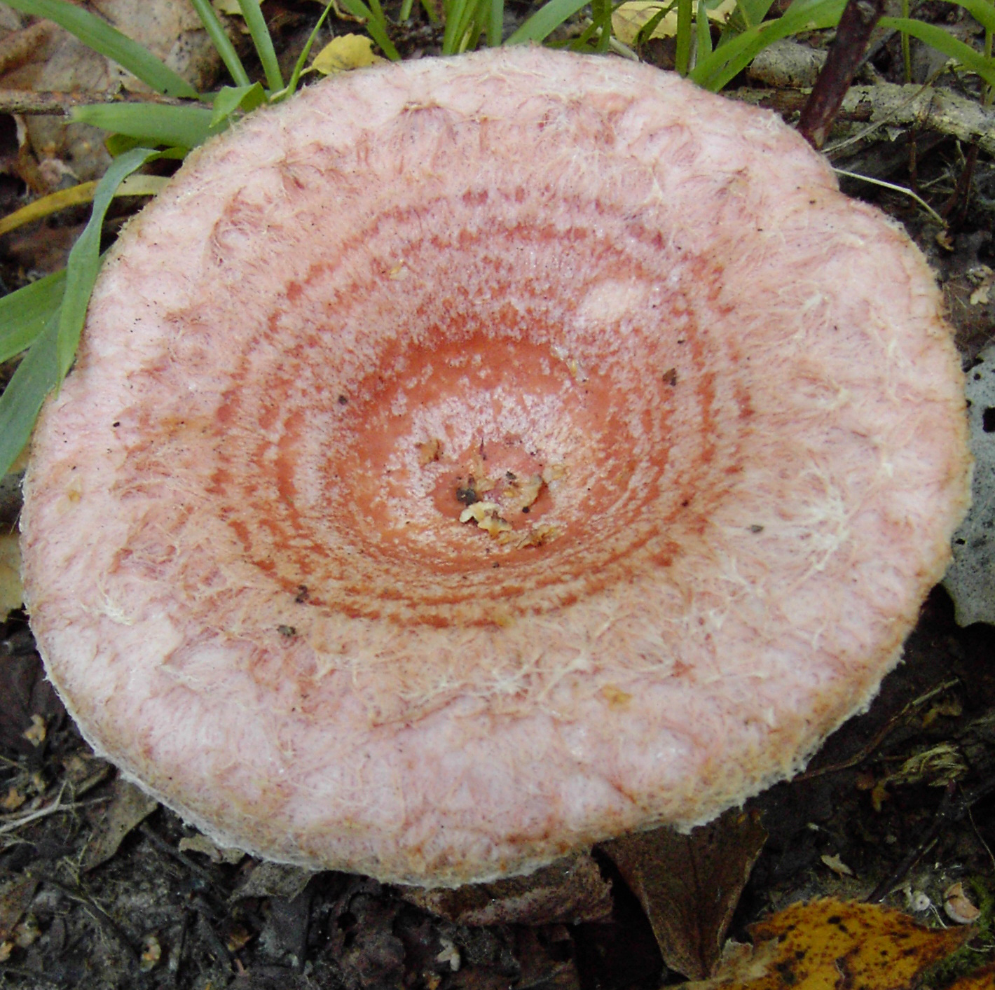 Under birch and aspen on clayey soil. (Selters/Ts (Germany))